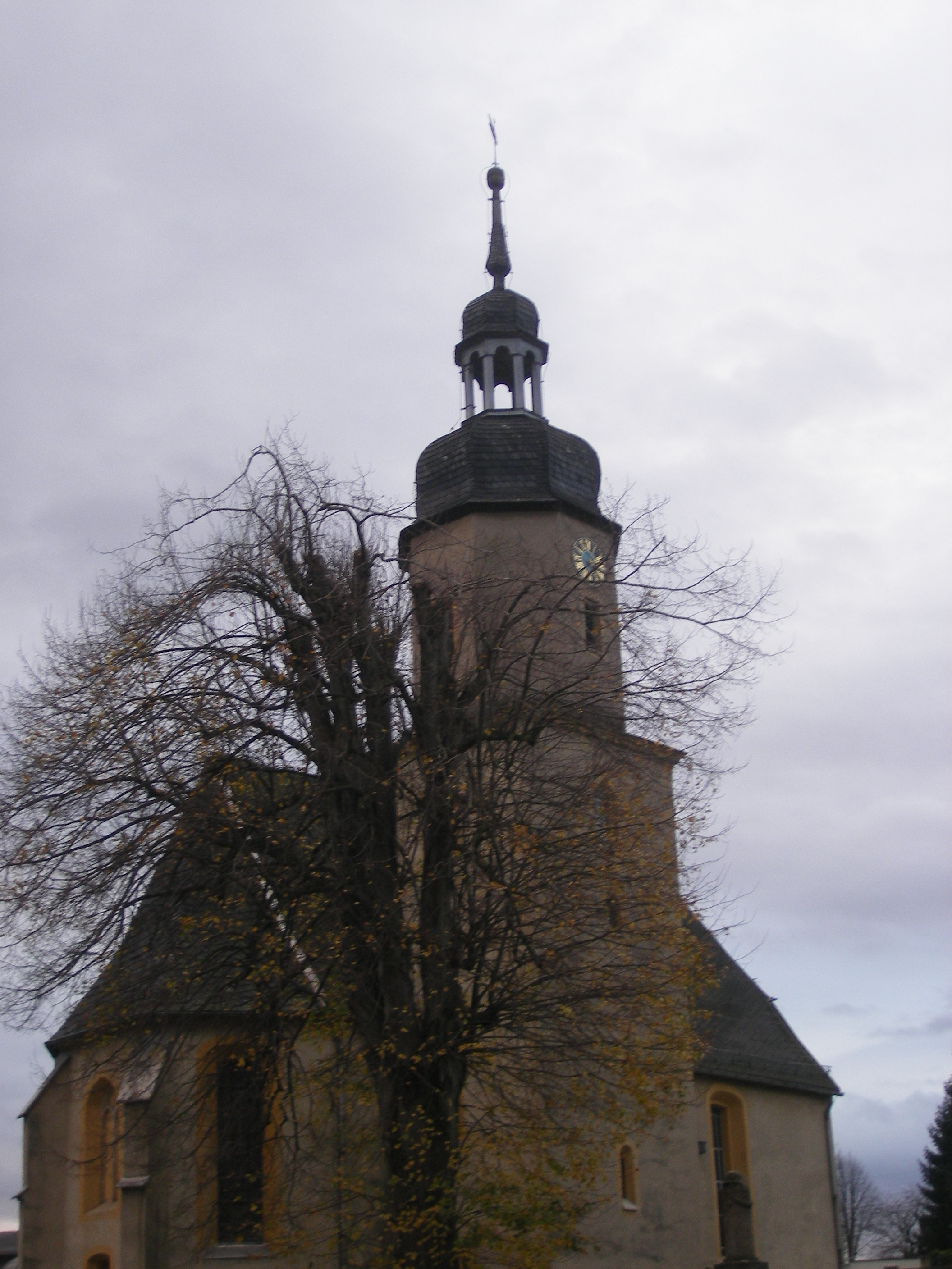 Church in Kosma, district of Altenburg/ Thuringia (Germany)